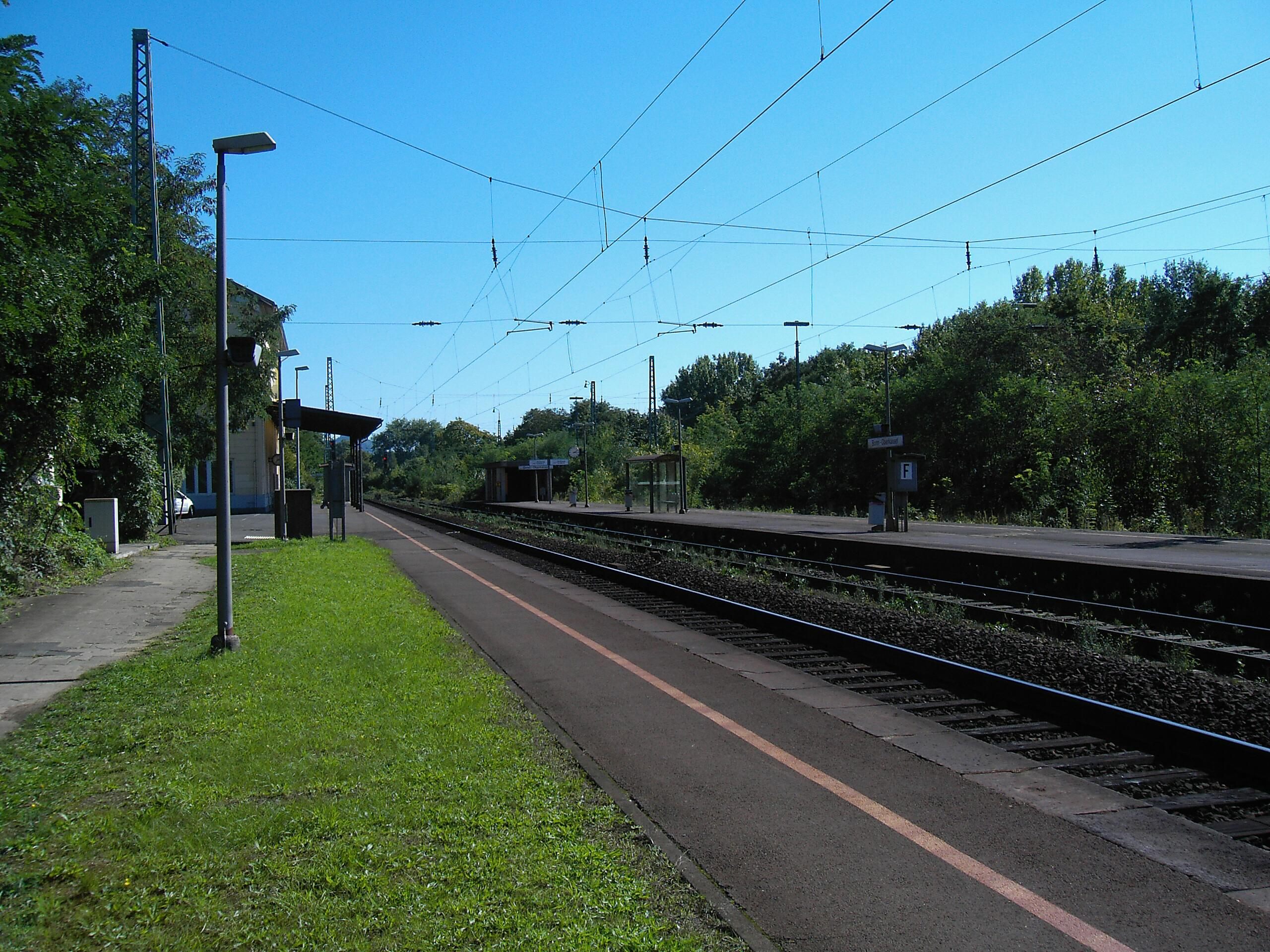 Train station in Bonn-Oberkassel.